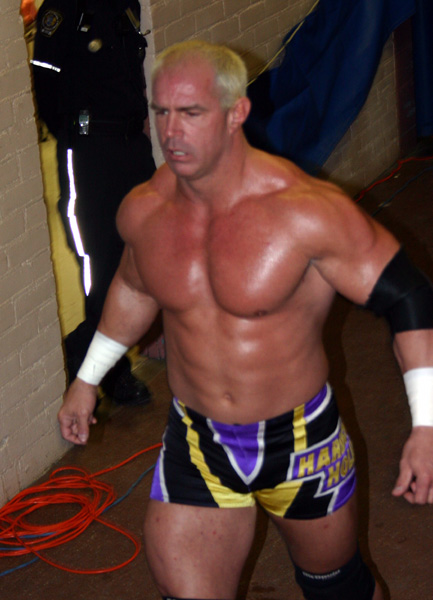 Bob "Hardcore" Holly makes his entrance on a WWE house show held in Kitchener, Ontario, Canada on January 15 2005.